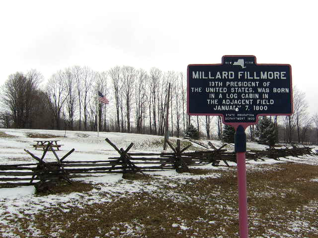 New York State Historic Marker for the birthplace of President Millard Fillmore. Located near the town of Summerhill, Cayuga County, New York. Picture taken 3/25/06.